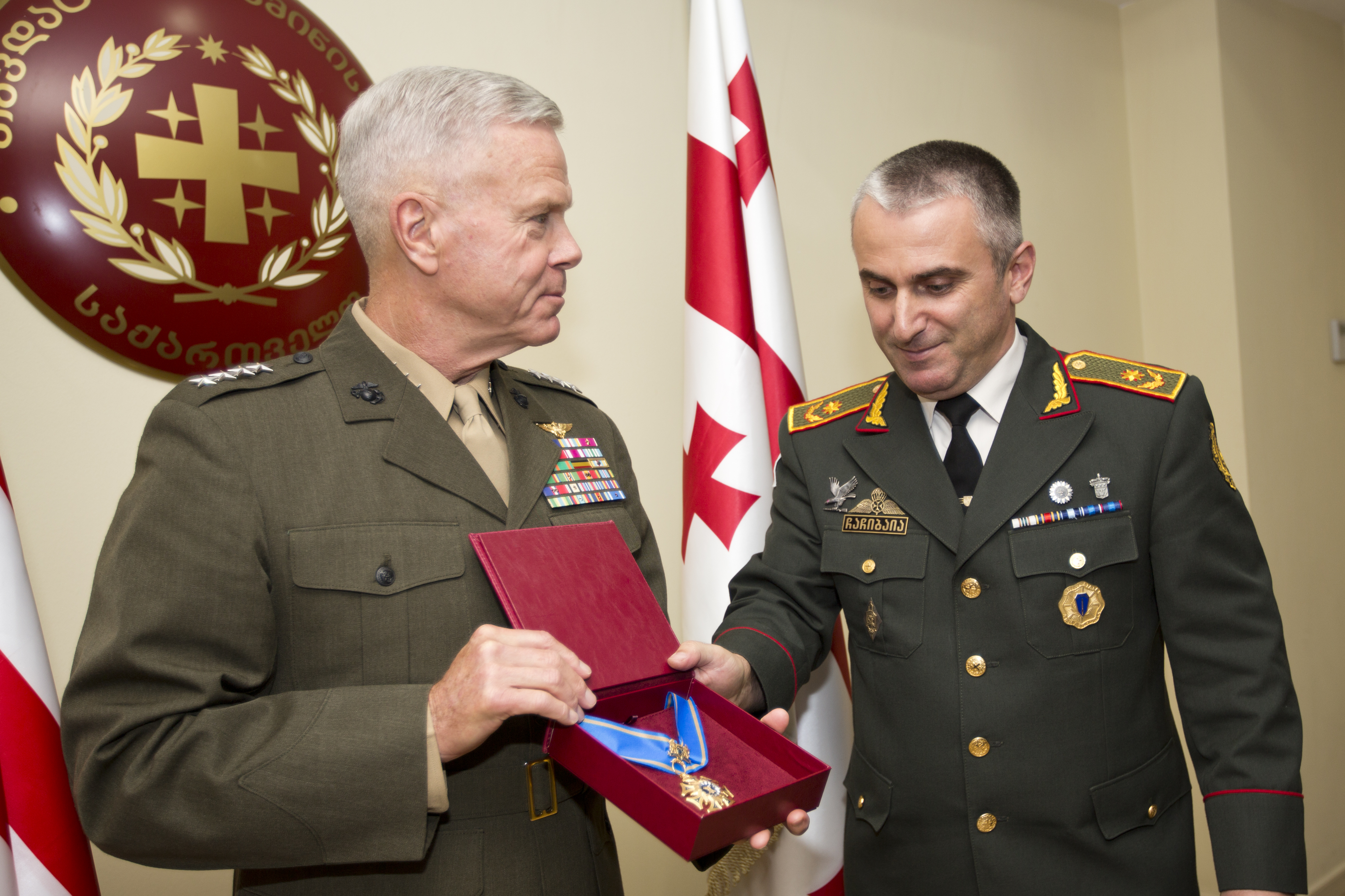 Commandant of the U.S. Marine Corps, Gen. James F. Amos, left, receives an award at Tbilisi, Georgia, Sept. 4, 2014. Amos was presented with the golden fleece award by Brig. Gen. Vladimer Chachibaia, the deputy chief of defense. (U.S. Marine Corps photo by Sgt. Gabriela Garcia/Released)